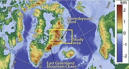 Greenland without ice sheets